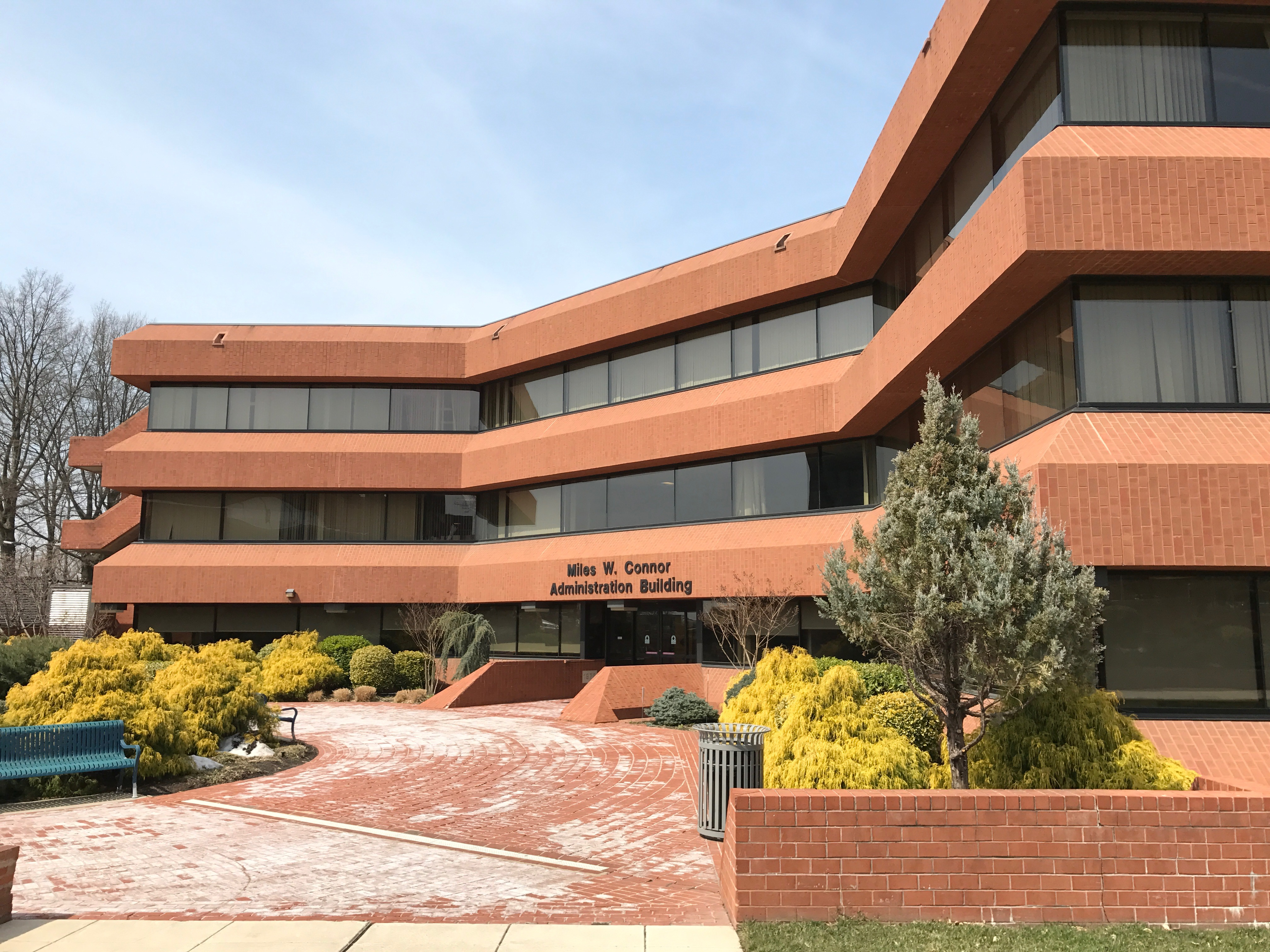 Photograph by Eli Pousson, 2017 March 24.